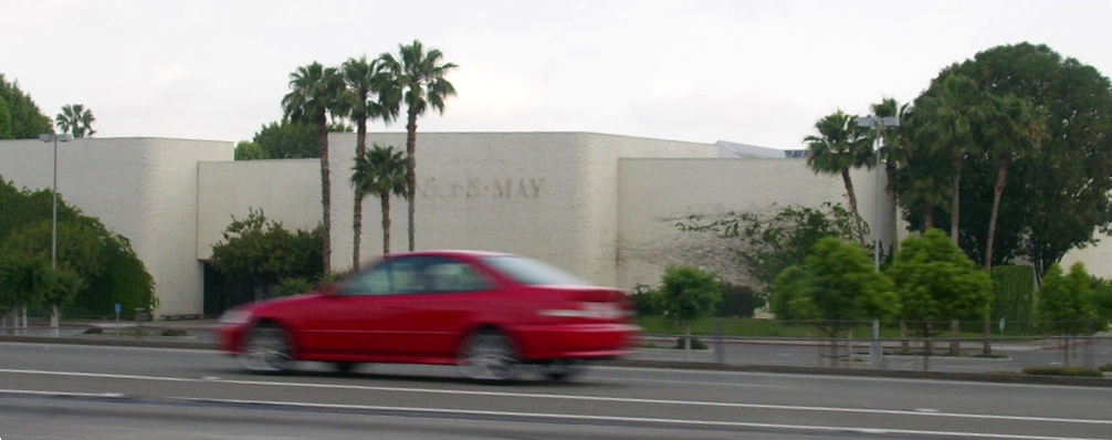 View of the former Robinsons-May department store at the Galleria at Tyler shopping mall in Riverside, California. The store was built in 1973 and opened in August of that year as the May Company department store. It was re-branded as Robinsons-May in 1993 as a result of the company's merger with J.W. Robinsons, and later closed in late 2005–early 2006 when the company was acquired by Macy's. The store re-opened as Macy's soon thereafter. View from the east bound lane of the California State Route 91, looking northwest. The photograph was taken with a Nikon Coolpix e3200 digital camera and edited using ArcSoft PhotoStudio 5.5